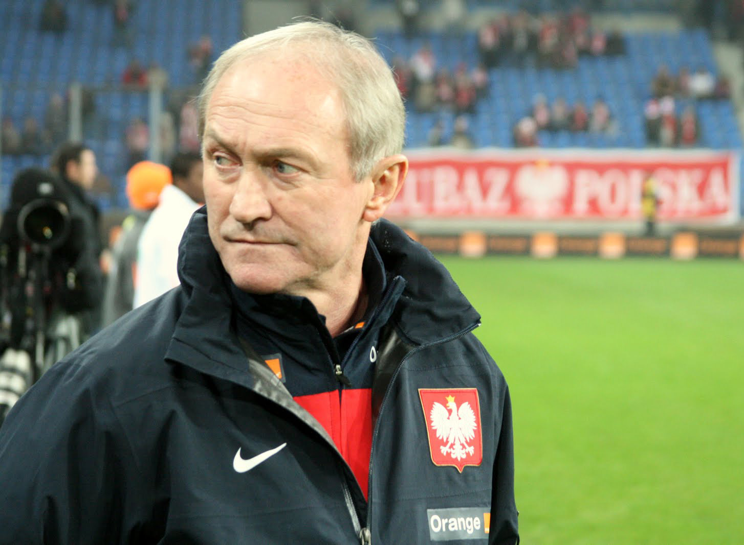 Polish football coach, Franciszek Smuda